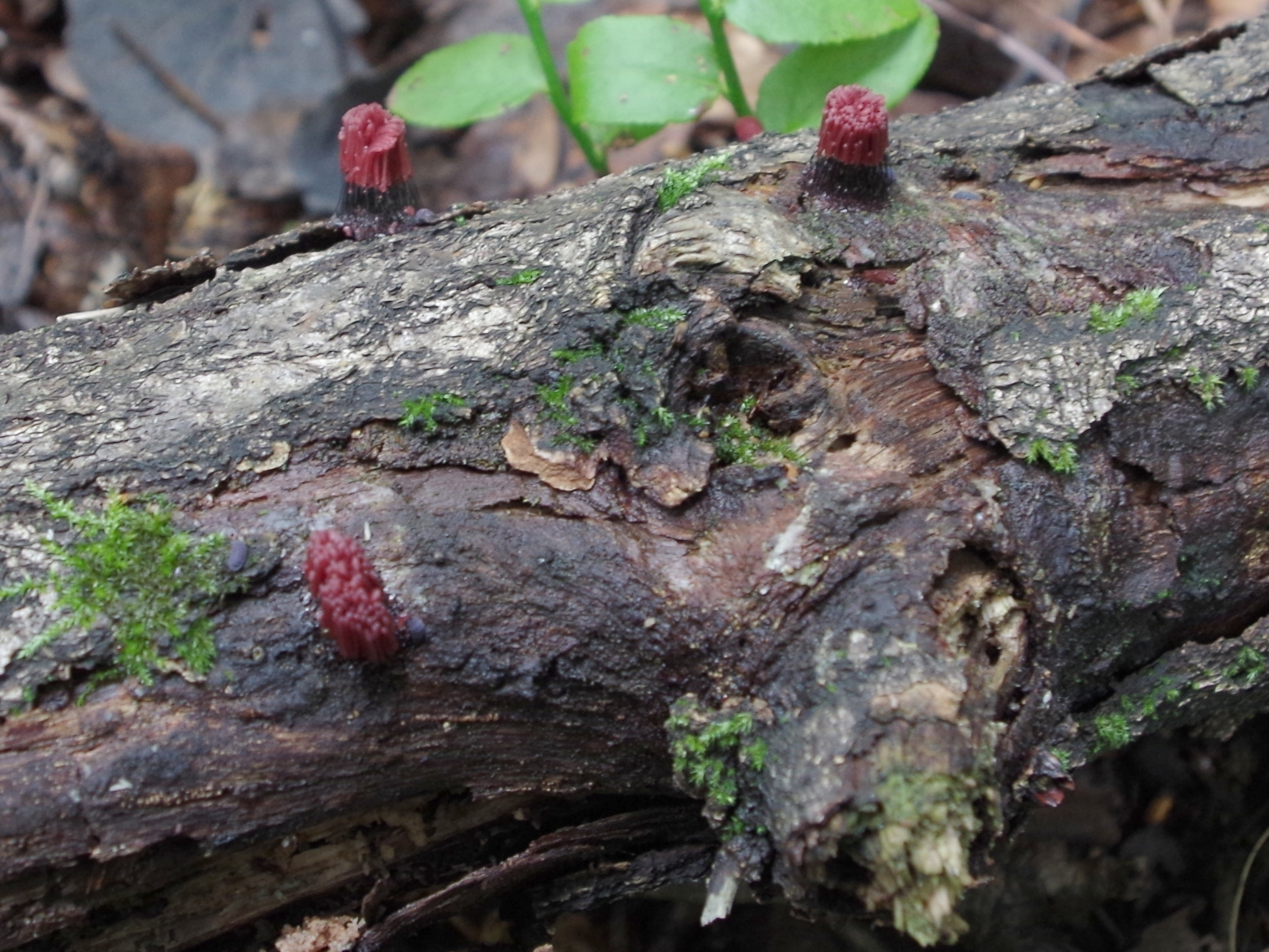 Stemonitis fusca (location: Poland